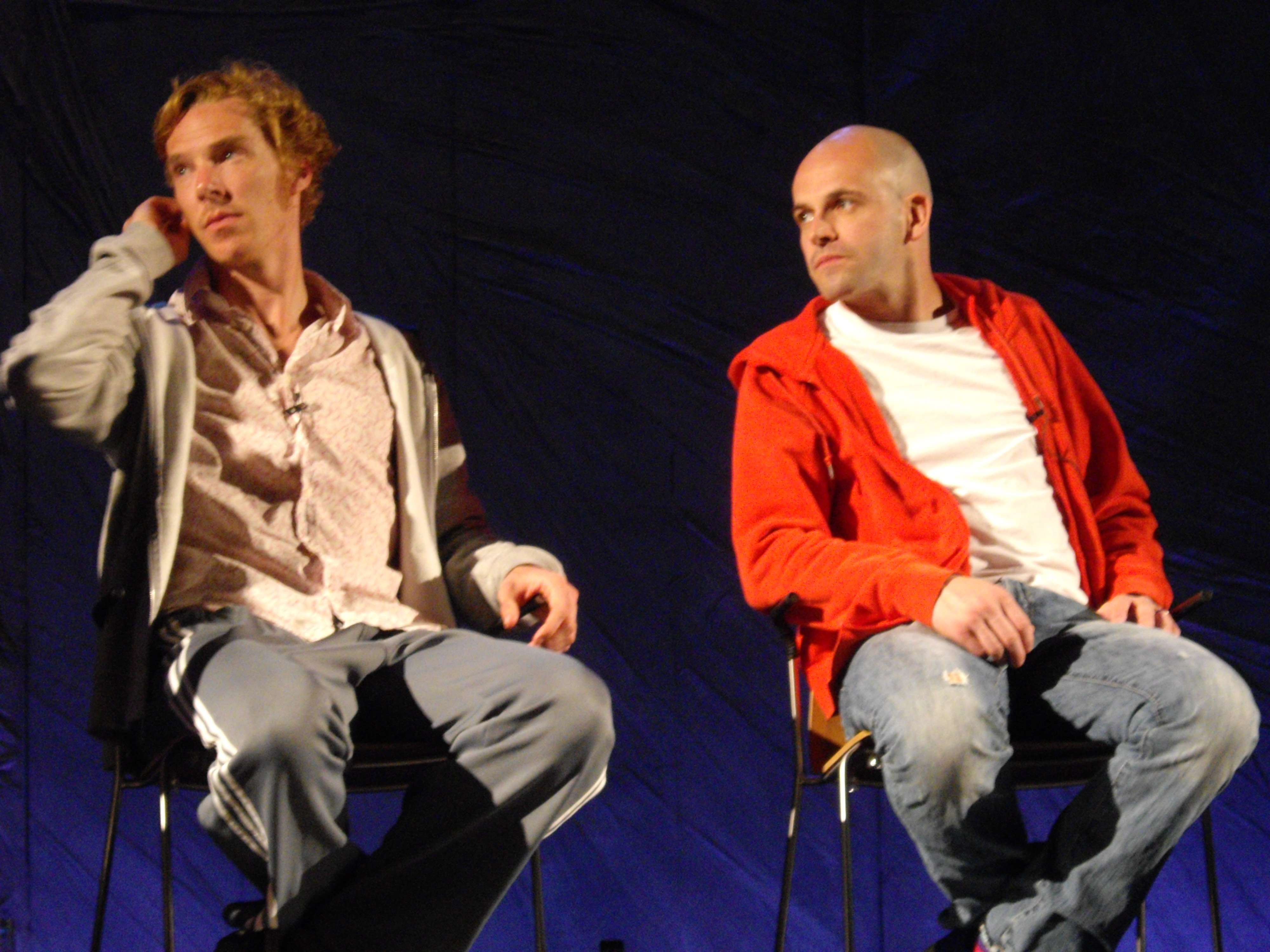 Benedict Cumberbatch & Jonny Lee Miller at Frankenstein Q&A at the National Theatre